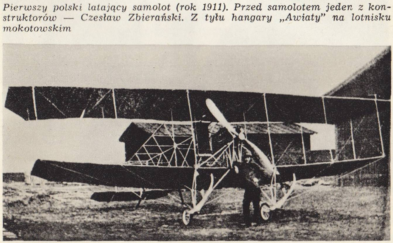 Czesław Zbierański, Polish aircraft constructor, in front of first Polish successfully flying aircraft at Lotnisko Mokotowskie airport in Warsaw in 1911